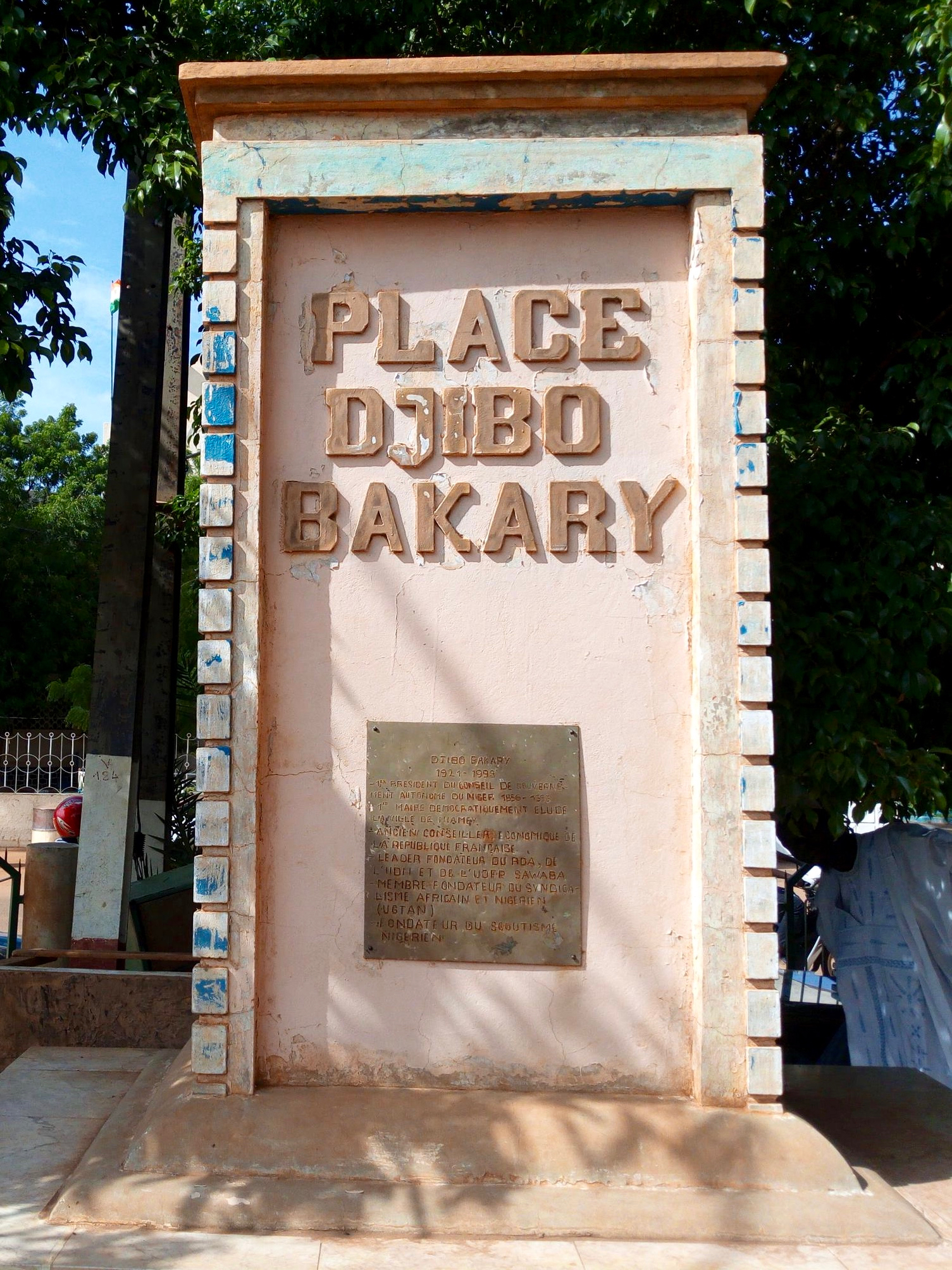 Stele with plaque at Place Djibo Bakary in Zongo quarter, Niamey.